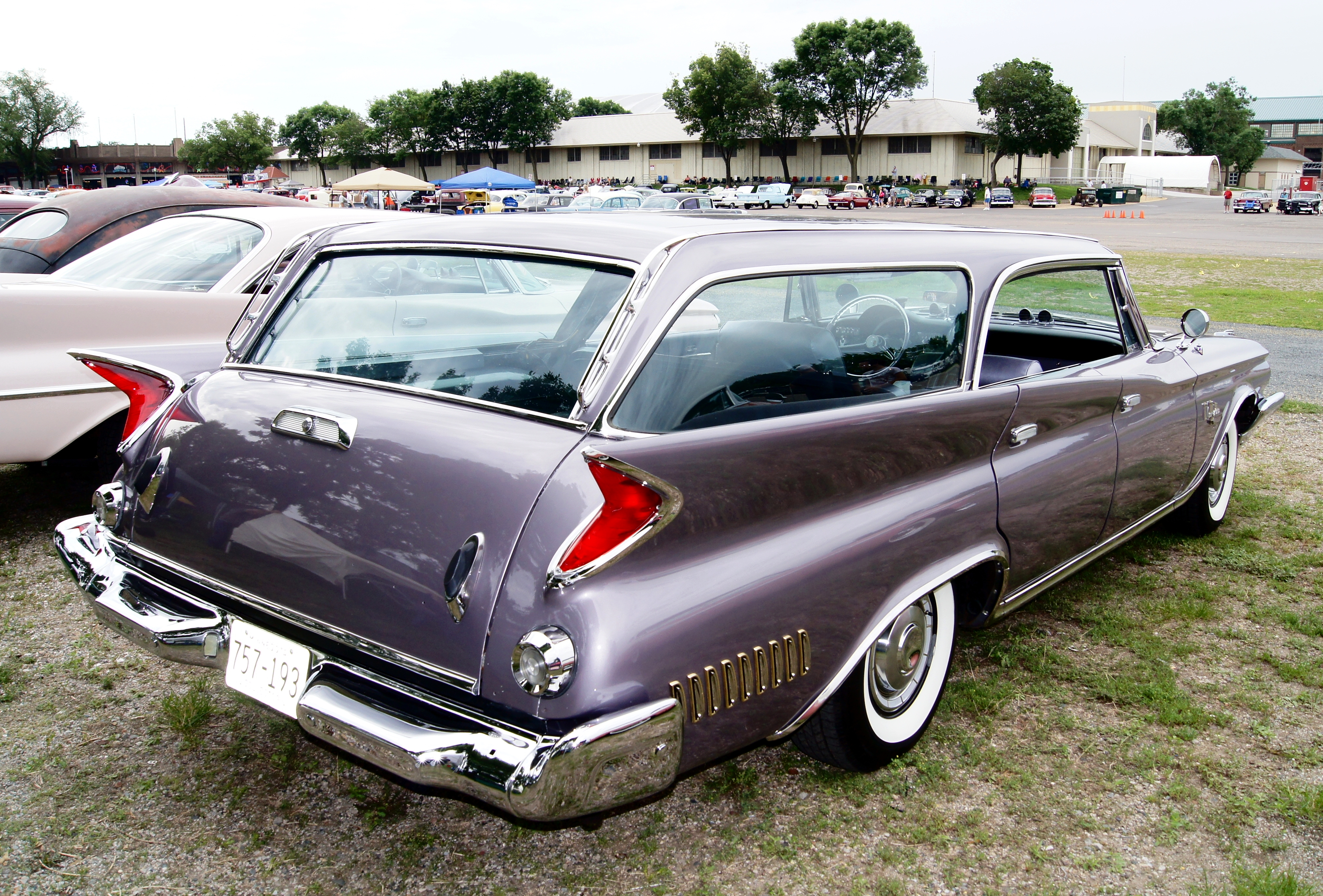 Minnesota Street Rod Association "Back to the Fifties" June 2012 Minnesota State Fairgrounds St. Paul MN